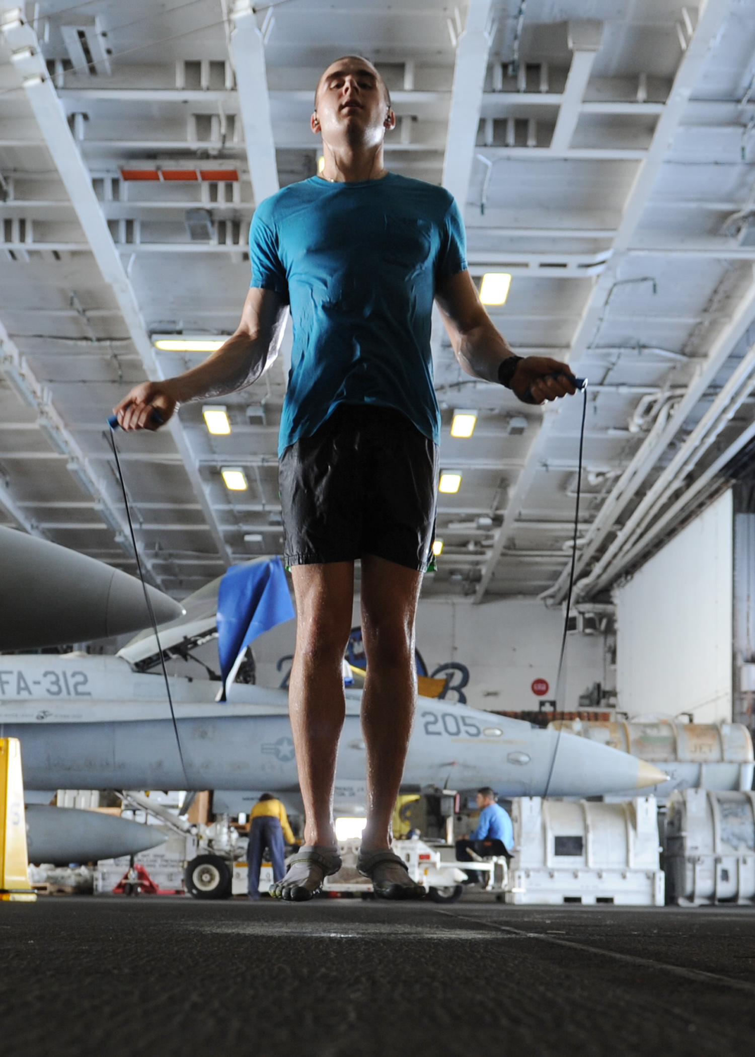 ARABIAN SEA (Oct. 4, 2010) Airman David Hall, from Buffalo, N.Y., jumps rope during a training session in the hangar bay aboard the aircraft carrier USS Harry S. Truman (CVN 75), for a triathlon he plans to participate in once the ship returns to homeport. The Harry S. Truman Carrier Strike Group is deployed in support of maritime security operations and theater security cooperation efforts in the U.S. 5th Fleet area of responsibility. (U.S. Navy photo by Mass Communication Specialist Seaman Ryan McLearnon/Released)